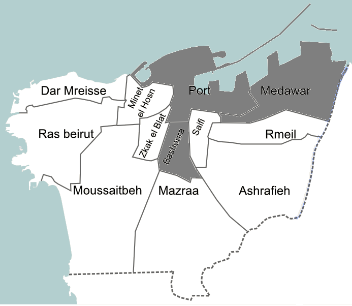 Beirut II electoral district, boundary as of 2009